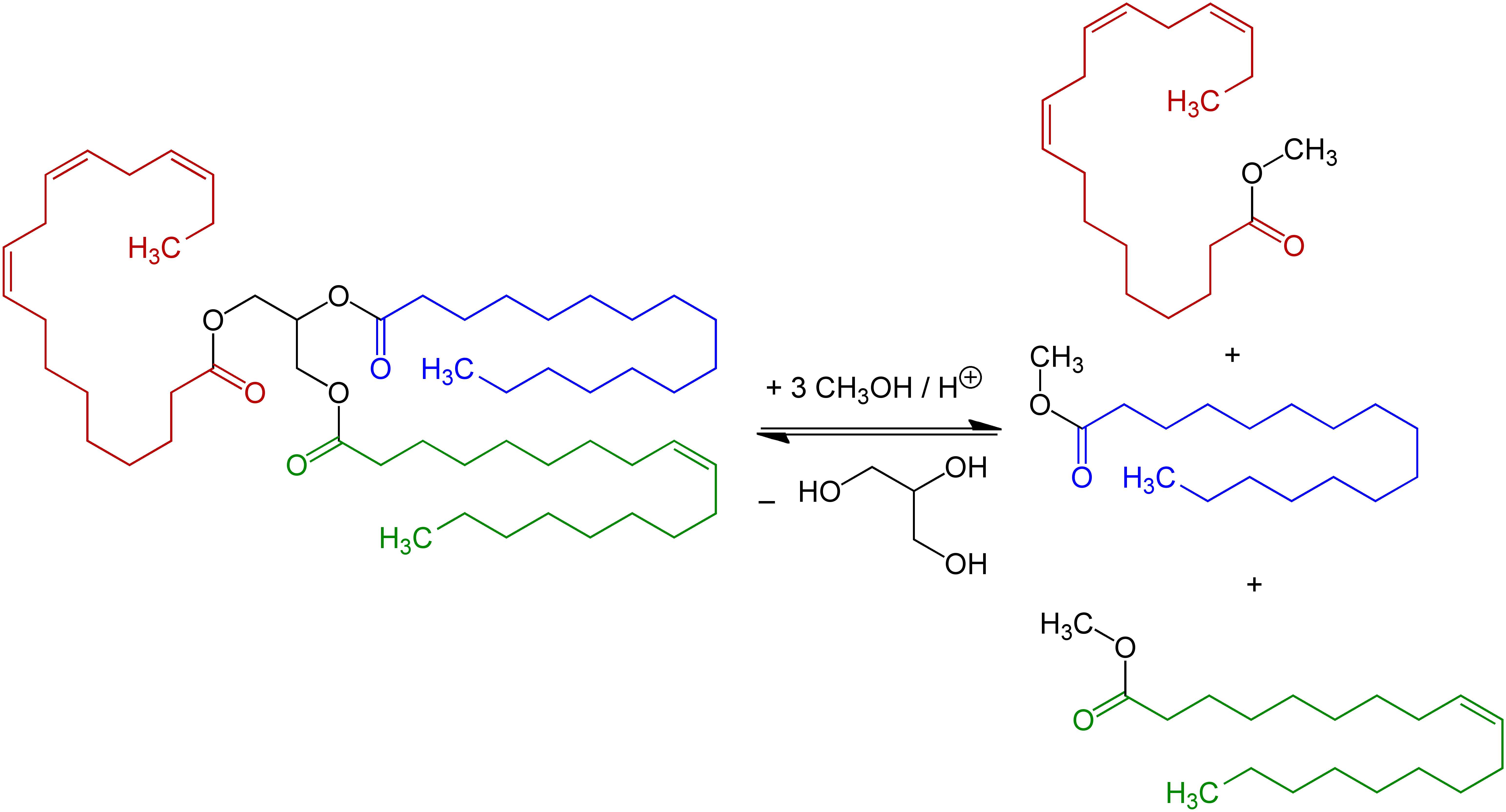 FAME_Synthesis_Transesterification